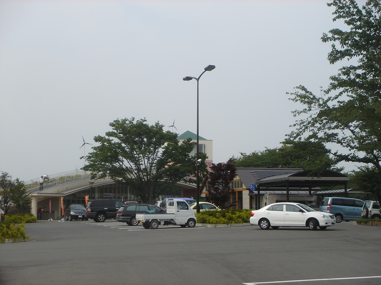 Yanaizu(Roadside station)(道の駅柳津),Gifu,Gifu,Japan(岐阜県岐阜市)で撮影